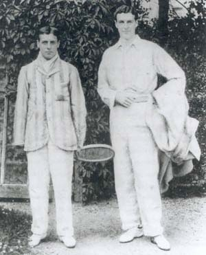 The tennis players, brothers Reginald and Lawrence Doherty